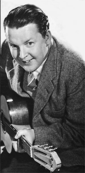 Photo of Swedish song writer Ulf Peder Olrog